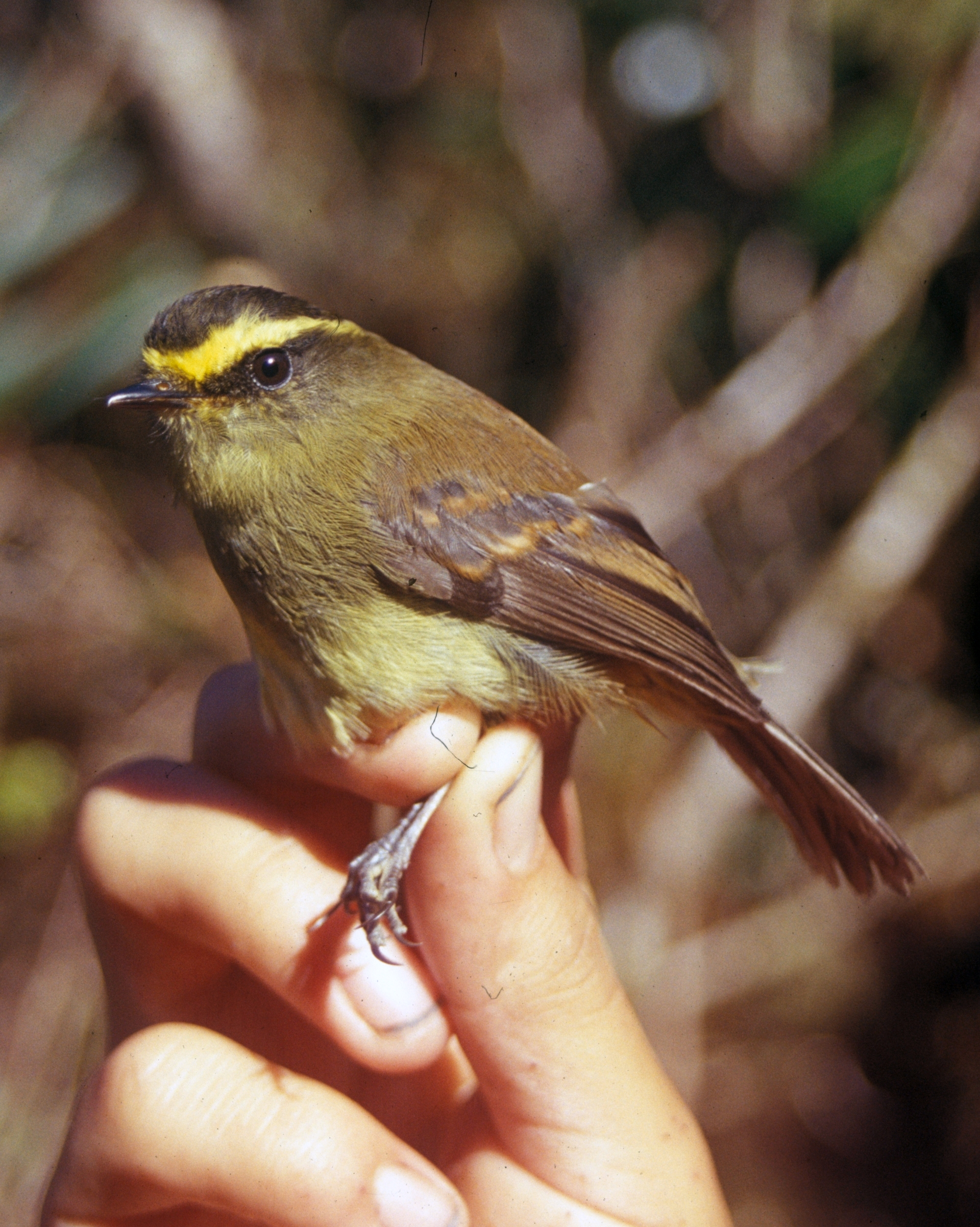 Yellow-bellied Chat-tyrant (Ochthoeca diadema) from Ecuador